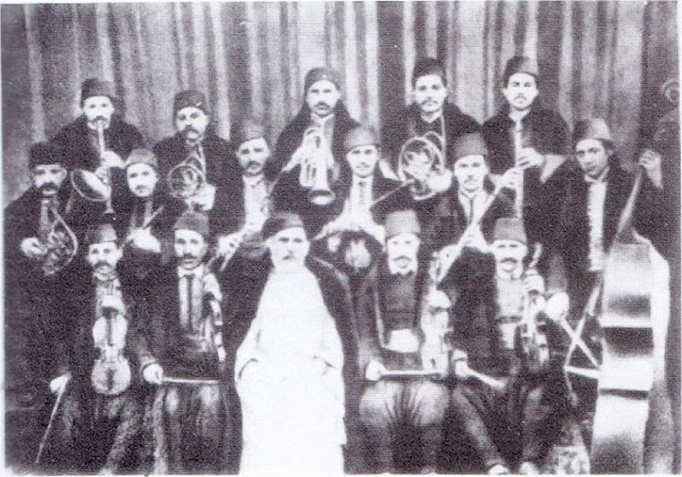 The orchestra at St. Ludwig's Catholic Church in Plovdiv, directed by Domenico Francesco Martiletti